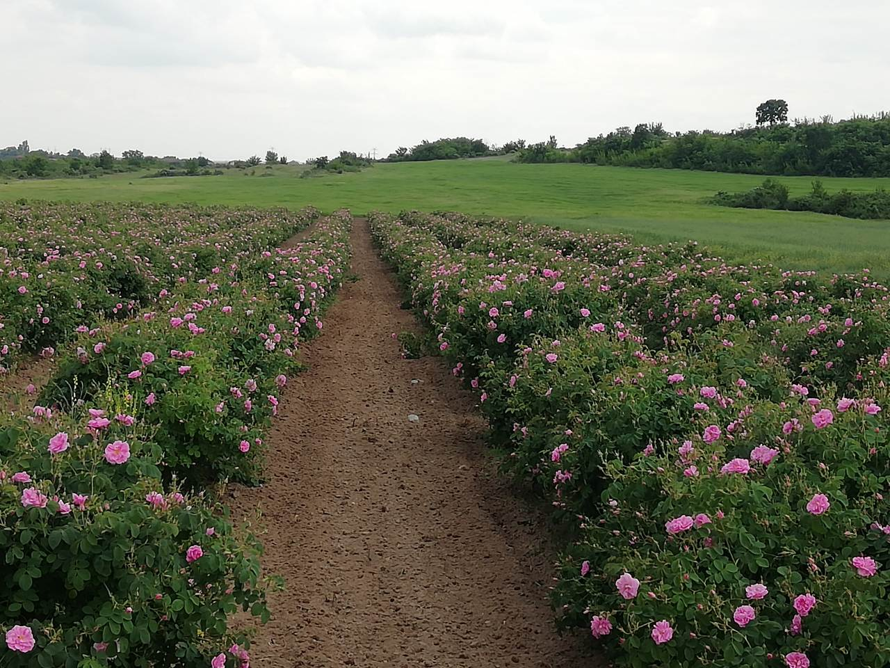 Rosa damascena